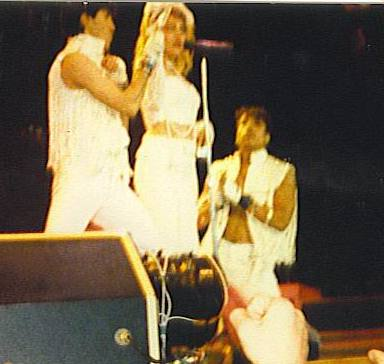 Picture taken by owner on 1985.